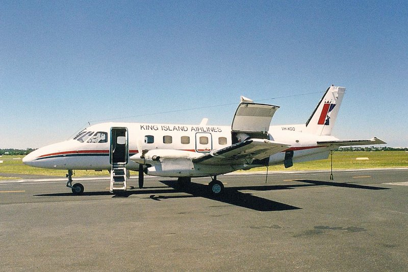 An Embraer EMB 110 Bandeirante of King Island Airlines, an Australian regional airline that operates between Melbourne, Victoria and King Island, Tasmania. Image scanned from a 6"x4" photograph of VH-KGQ taken by YSSYguy on 31 December 1998 at Moorabbin Airport in Melbourne and uploaded for use in the King Island Airlines article. Image edited using Picasa software. YSSYguy (talk) 12:00, 26 October 2011 (UTC)